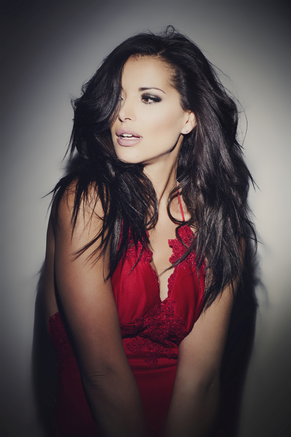 Lee-Ann Liebenberg photographed by Kevin Mark Pass.